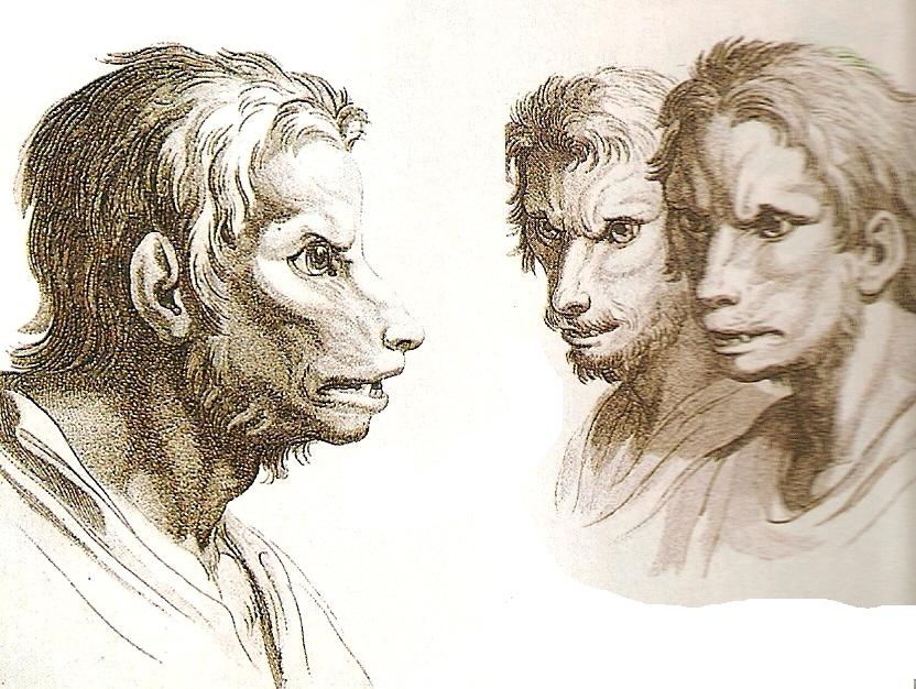 Charles De Brun, "Similarities Between the Head of a Wolf and a Man, from 'Livre de portraiture pour ceux qui commence" (cropped)